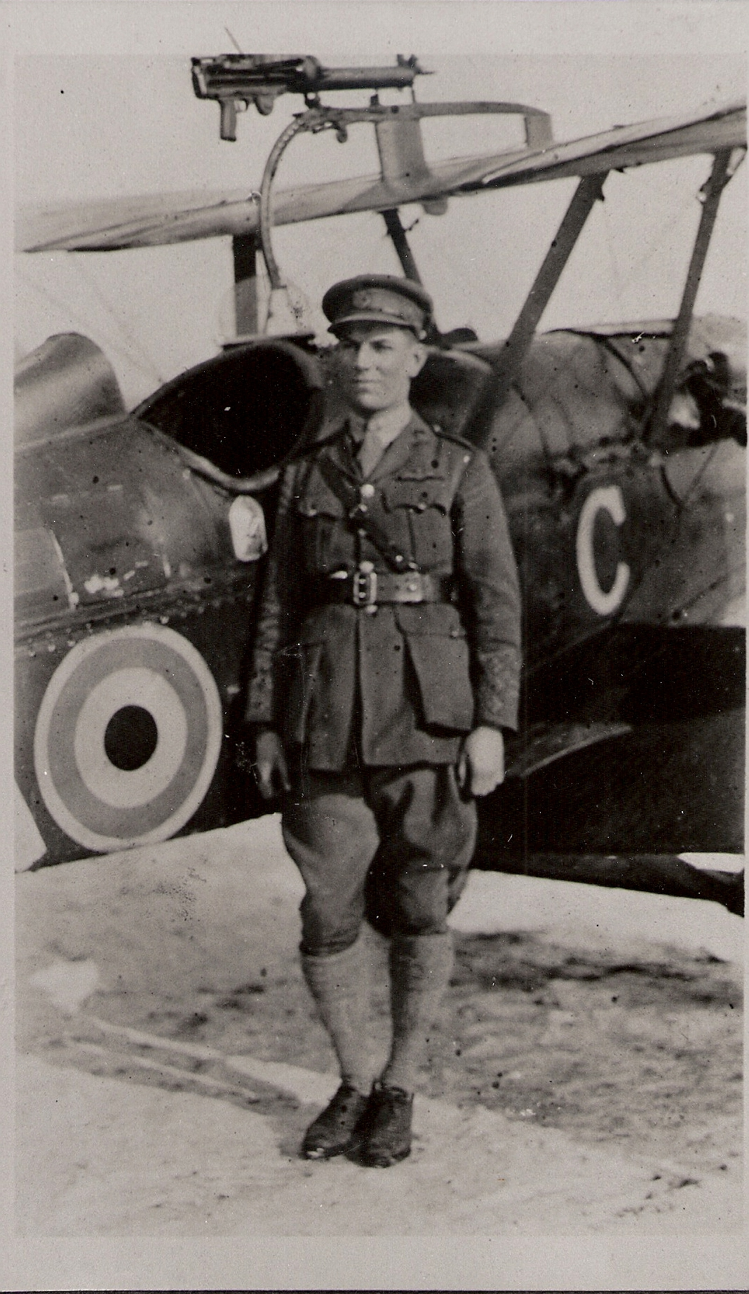 Rogers was promoted to Captain on November 4, 1918 and commanded A flight until the end of the war. This photo was taken at Serny France, March 1919